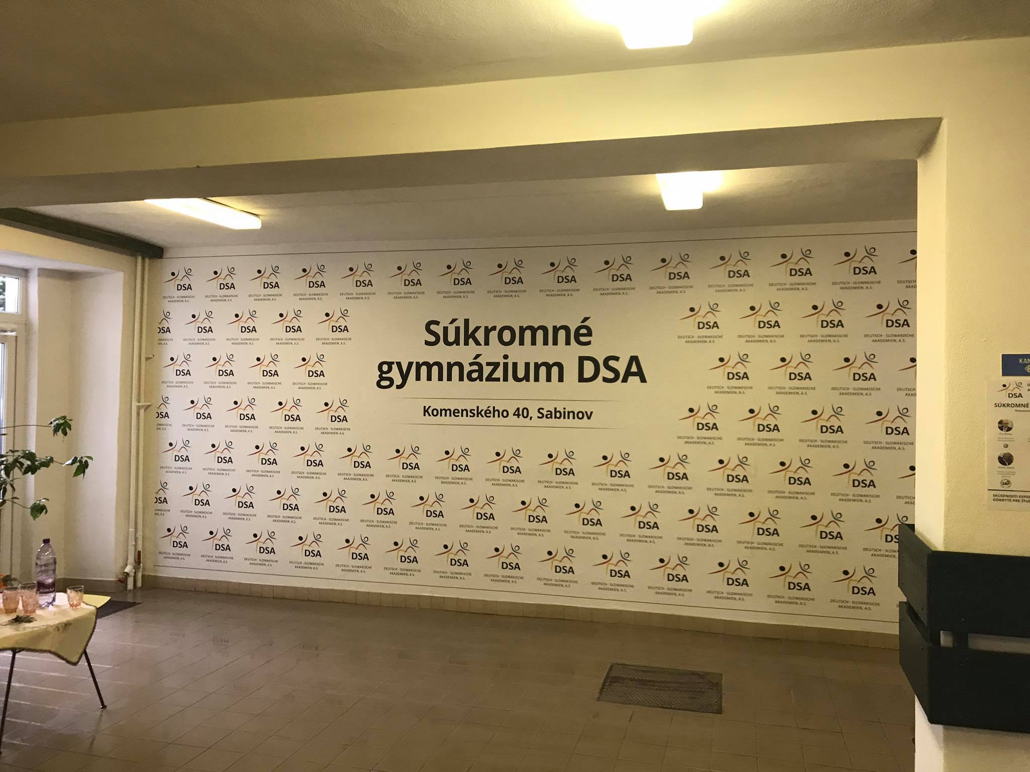 Sukromne gymnazium DSA Sabinov